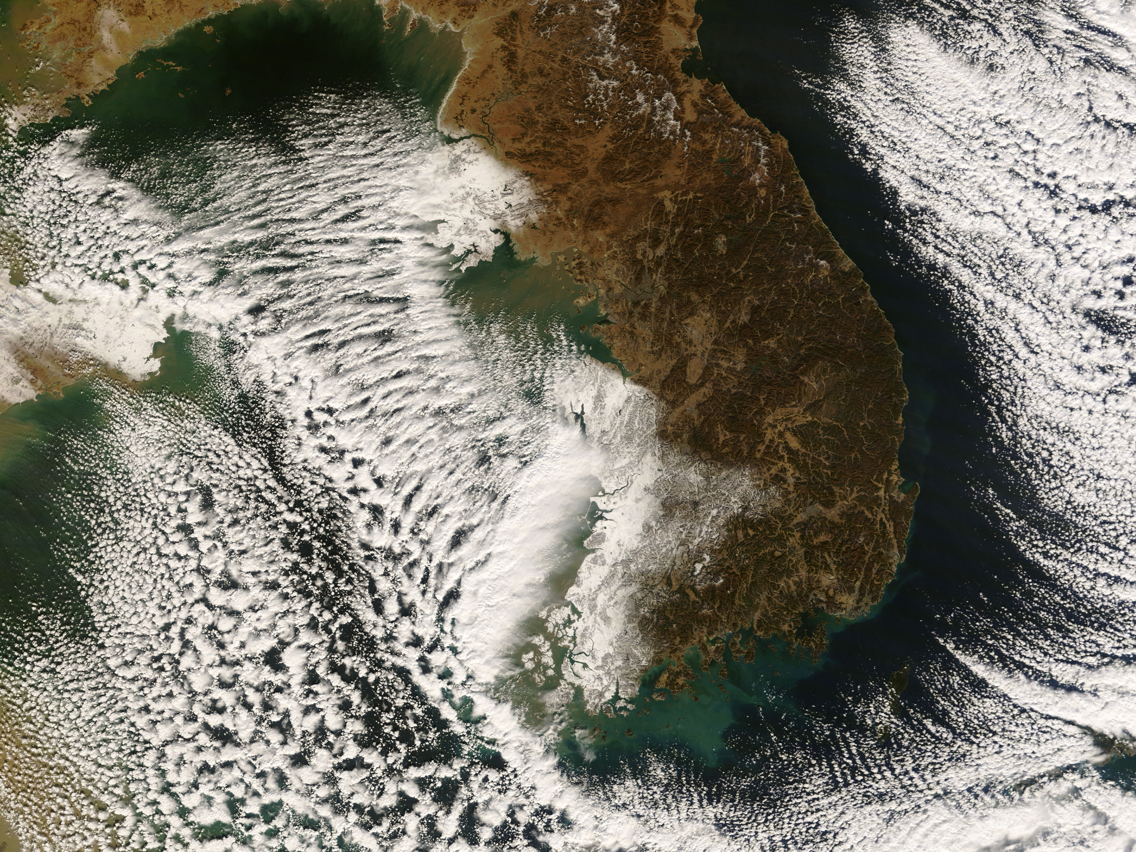 Cumulus congestus snow clouds in the Yellow Sea and East Sea near the Korean peninsula.